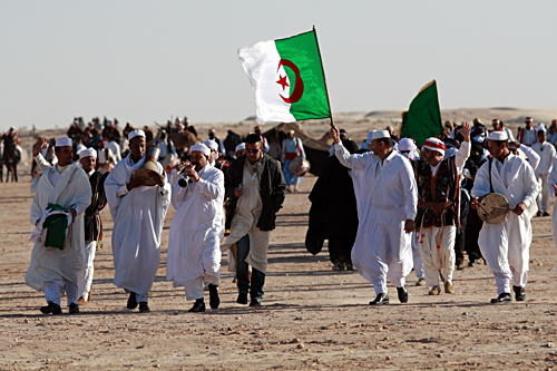 Algerian group shot at the 43rd International Festival of the Sahara in Douz, Tunisia